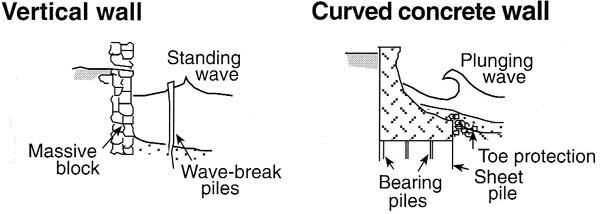 University of Barcelona, Spain